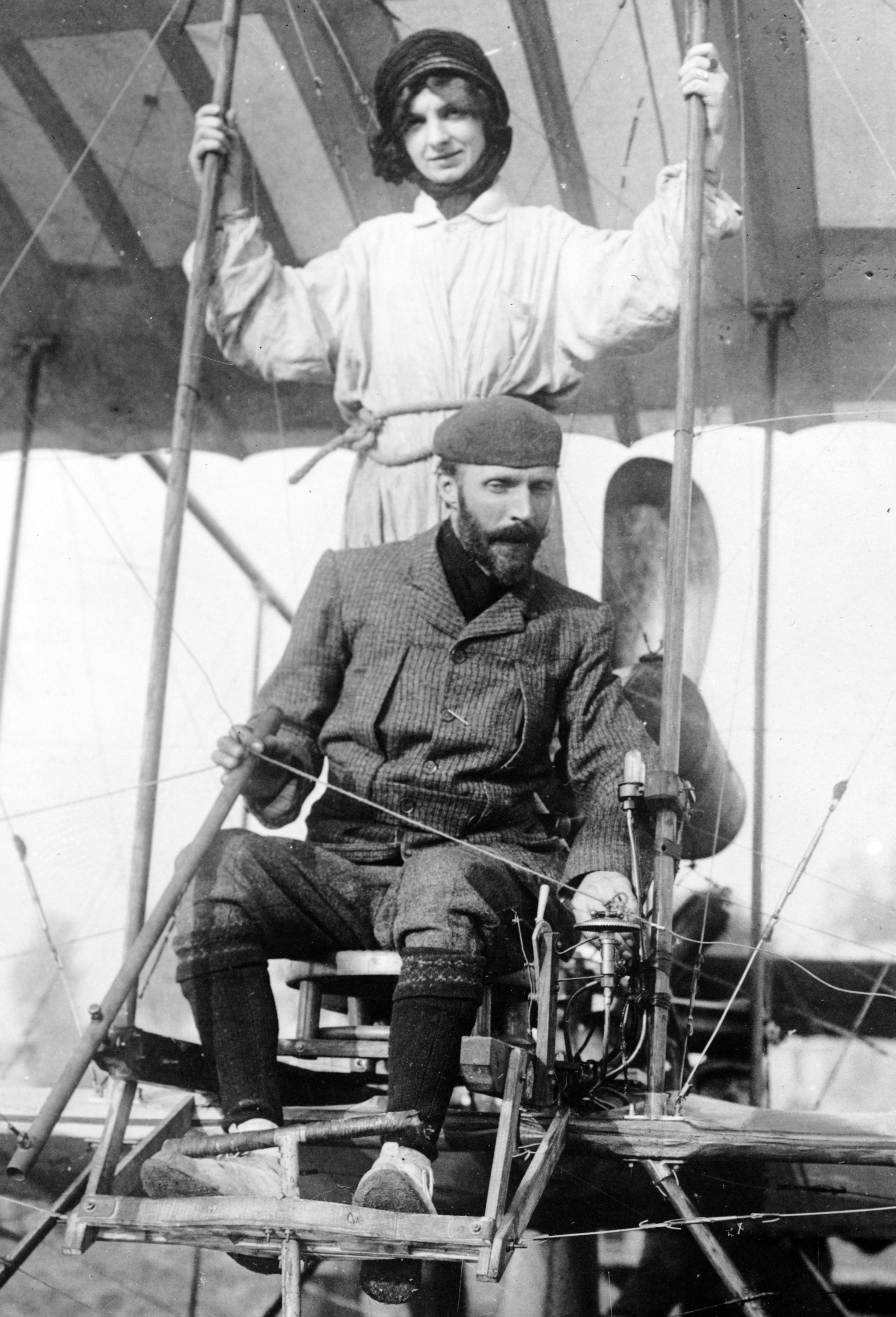 French aviator Henri Farman (1874-1958) and wife in a biplane